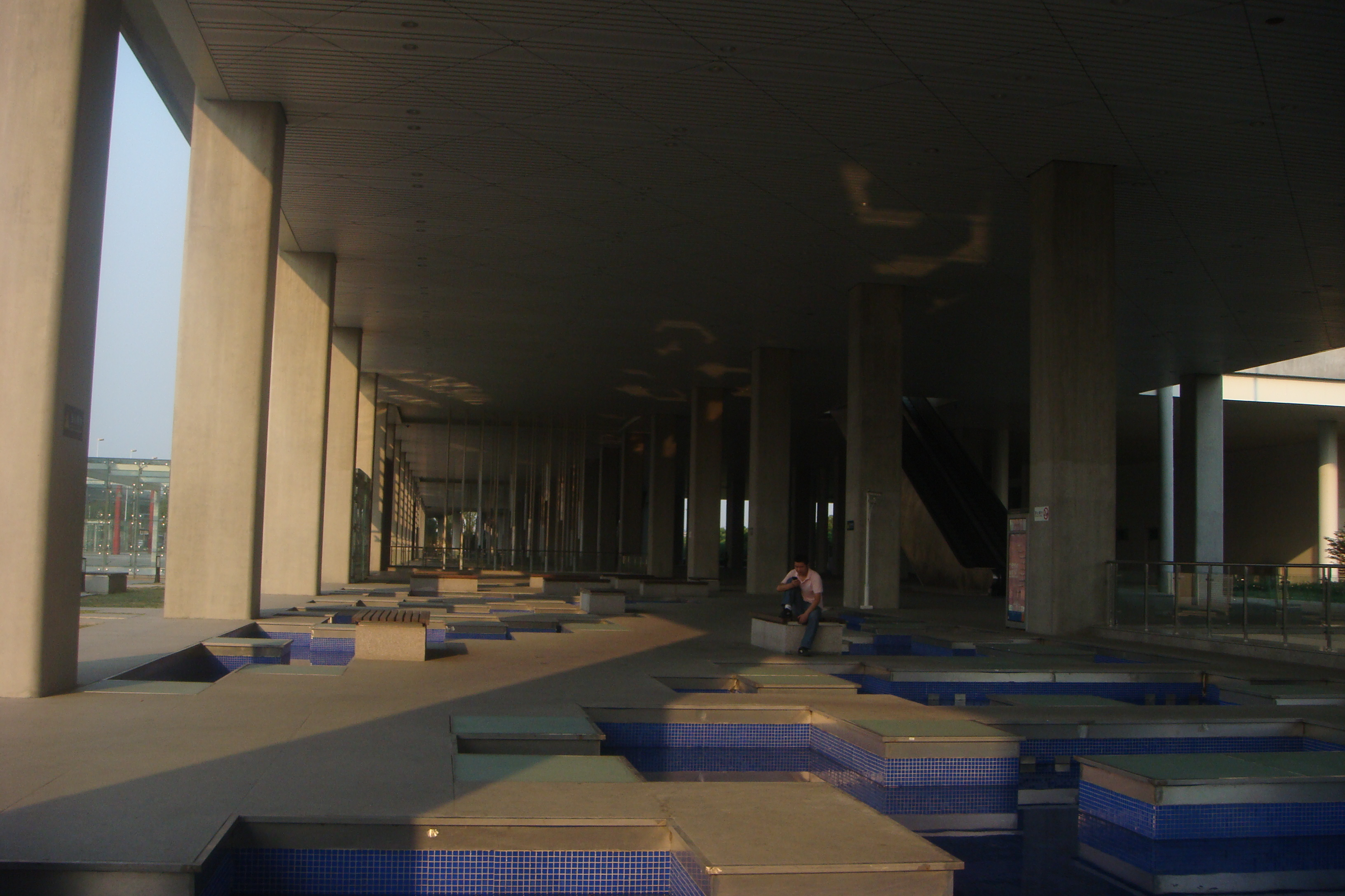 Arrival Hall of Suzhou Yuanqu Railway Station